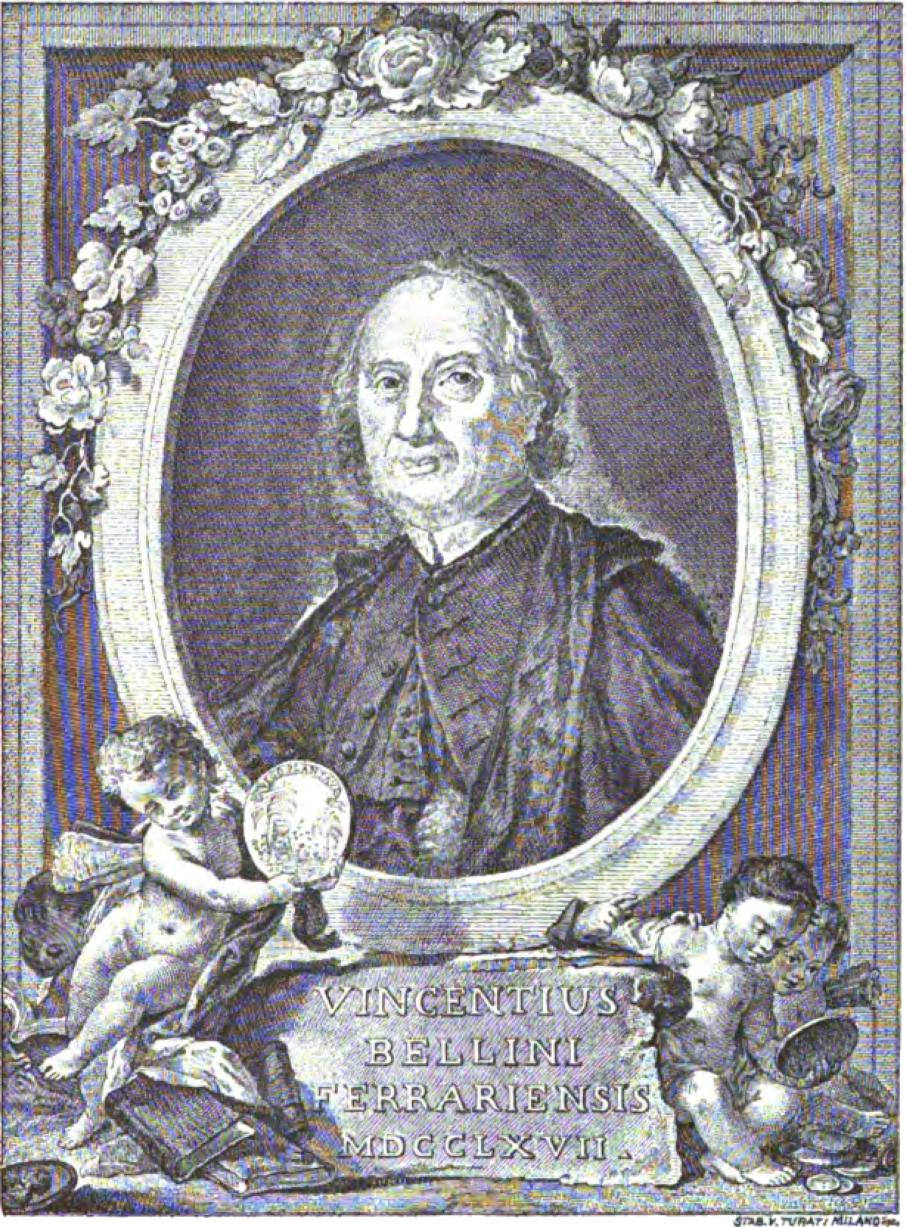 image from "Rivista italiana di numismatica 1888.djvu p. 411 (../434): Portrait of an Italian numismatist named Vincenzo Bellini